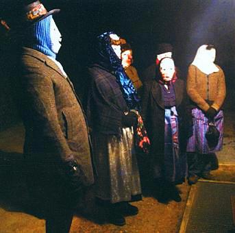 Klöckeln in South Tyrol